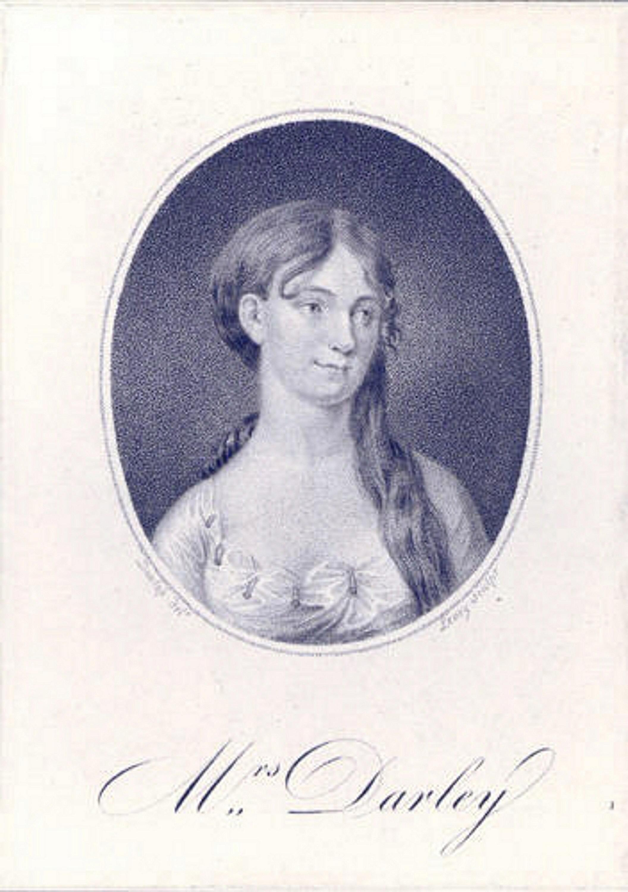 Ellen Darley (maiden name Westray) d.1849, was an actress who debuted in Boston in 1796 with the Boston Theatre.